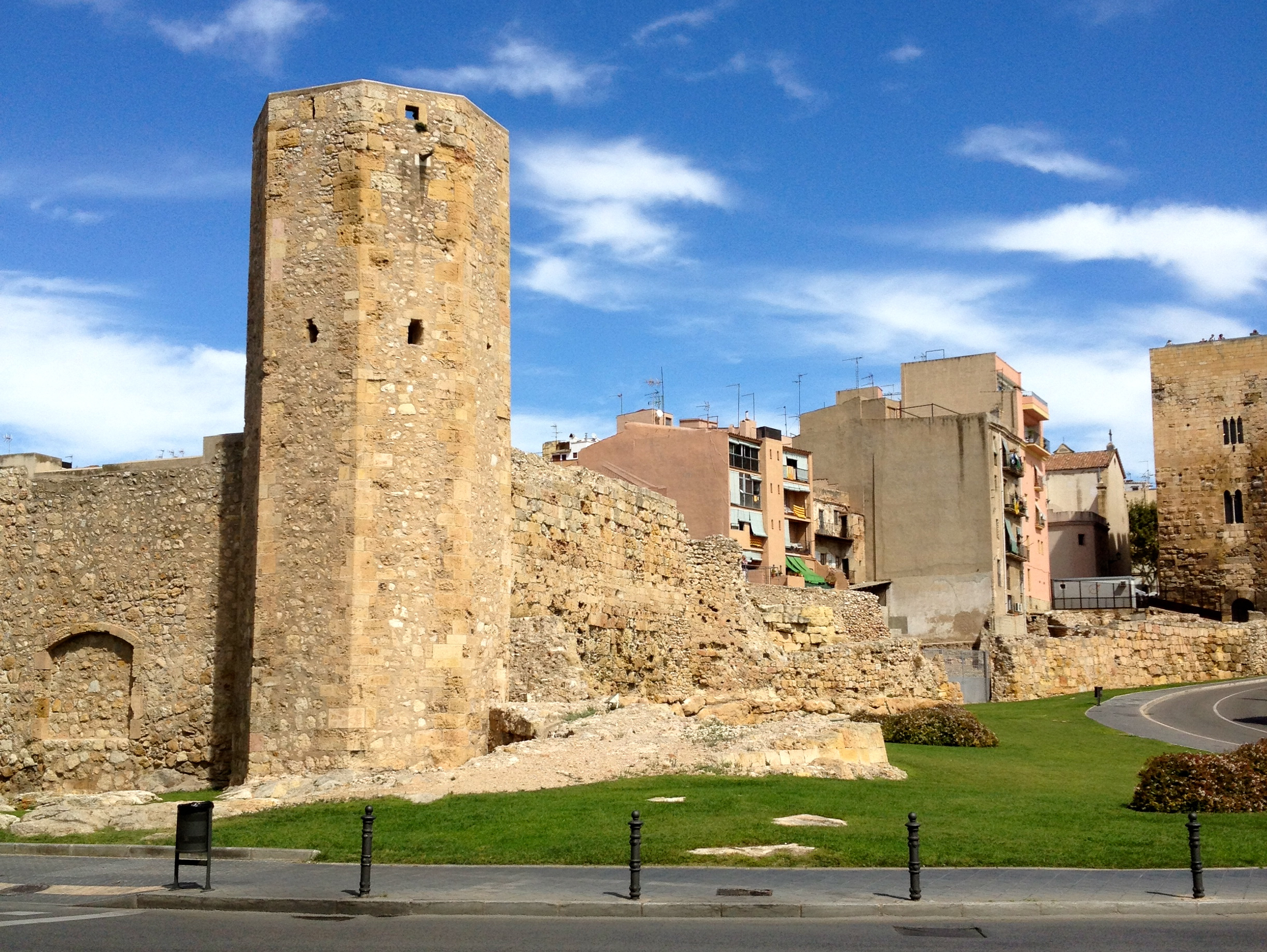 Roman walls in Tarragona